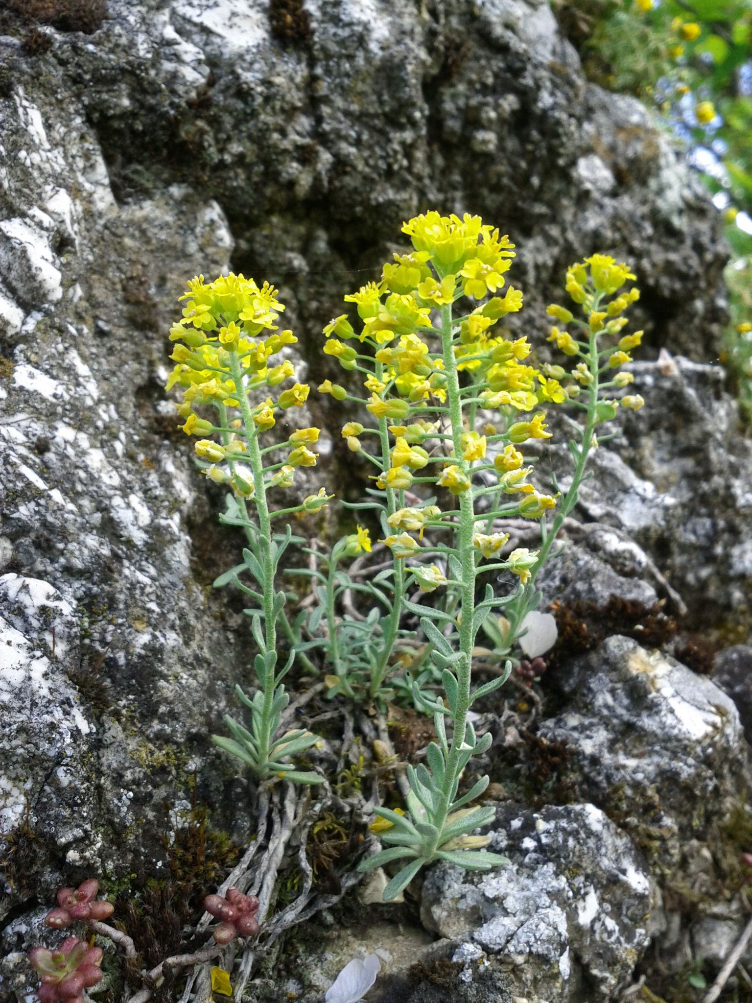 Habitus Taxonym: Alyssum montanum subsp. "montanum" ss Fischer et al. EfÖLS 2008 ISBN 978-3-85474-187-9 = Alyssum montanum subsp. gmelinii ss Španiel, Marhold, Thiv, Zozomová-Lihová: Botanical Journal of the Linnean Society Volume 169, Issue 2, pages 378–402, June 2012 Location: Steinbacher Heide, Leiser Berge, district Korneuburg, Lower Austria - ca. 430 m a.s.l. Habitat: rock steppe